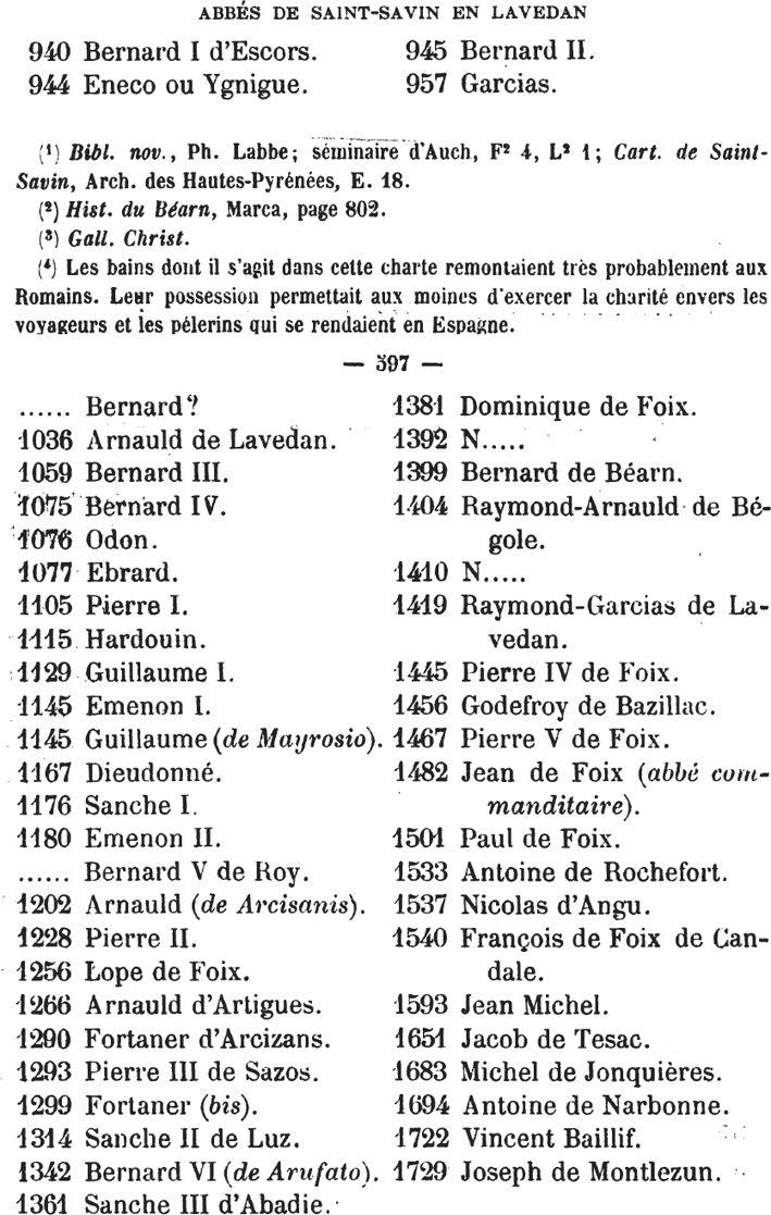 List of Abbes of Saint-Savin En Lavendan's Abbey